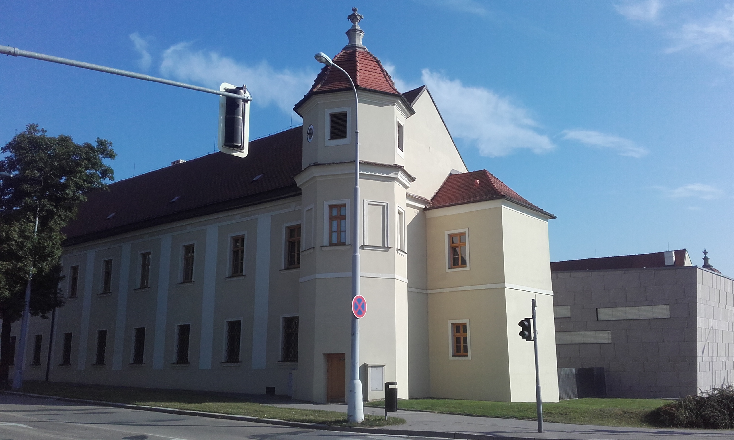 Exterior of the building of the university.